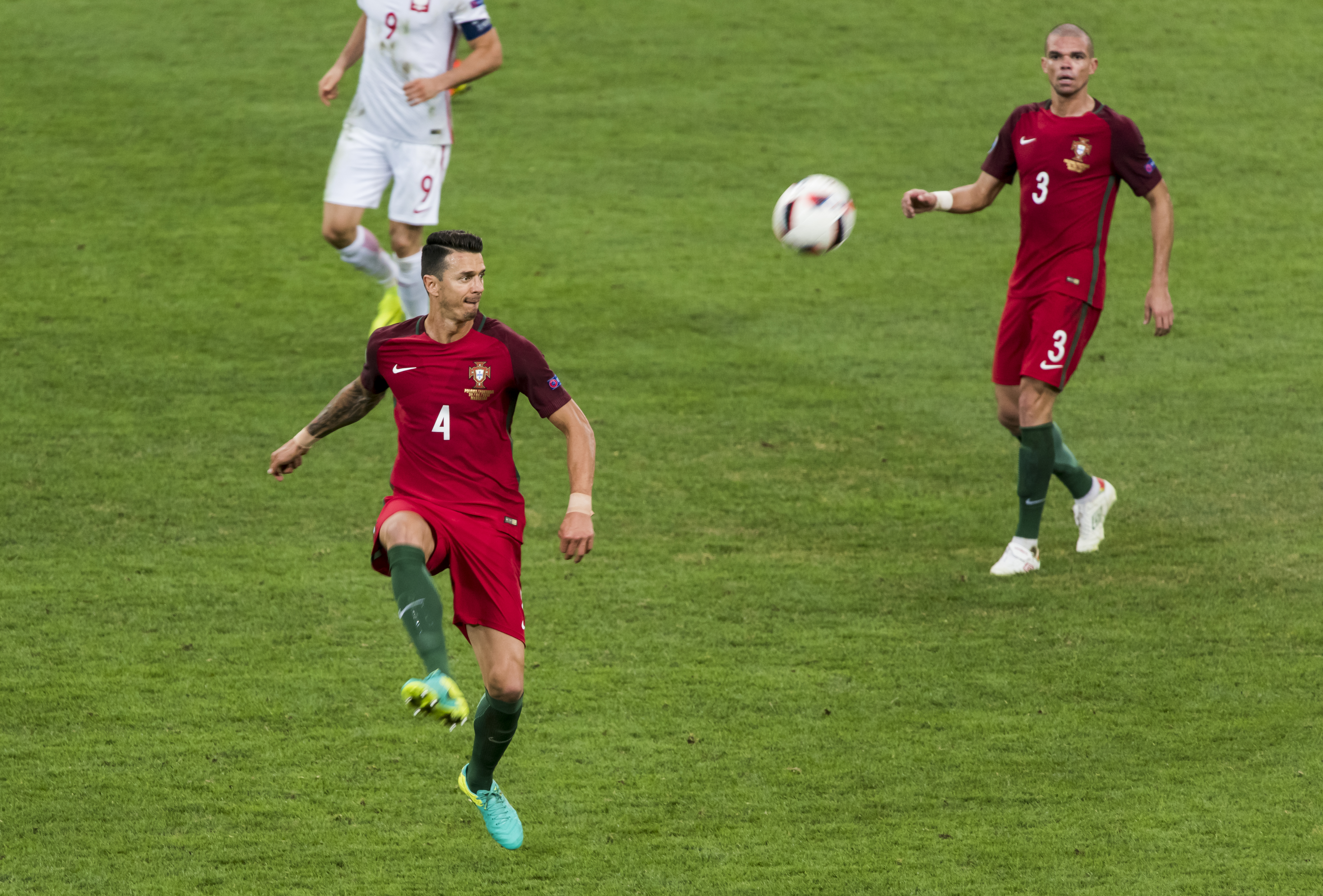 José Fonte portugal versus poland uefa euro 2016 quarterfinal